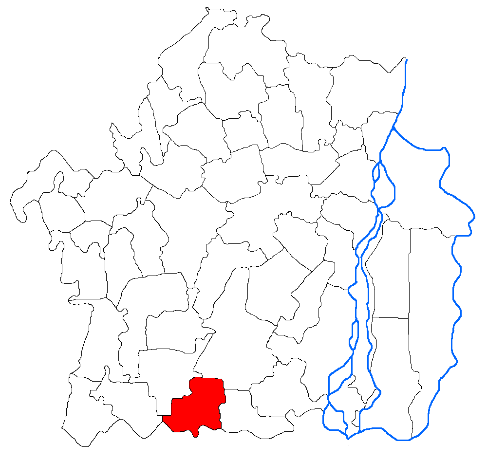 Limits of Commune of Baraganul in Braila County